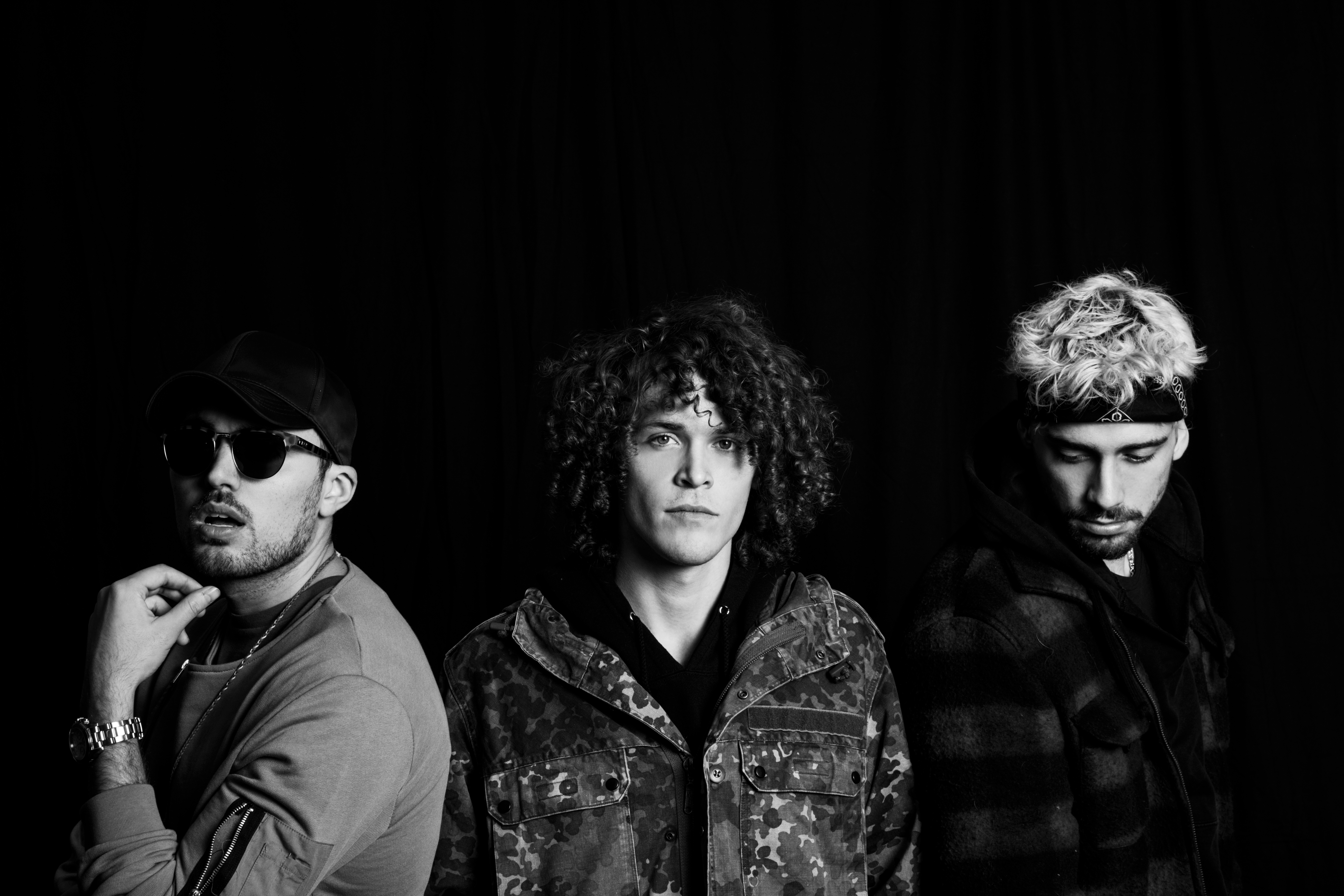 Cheat Codes